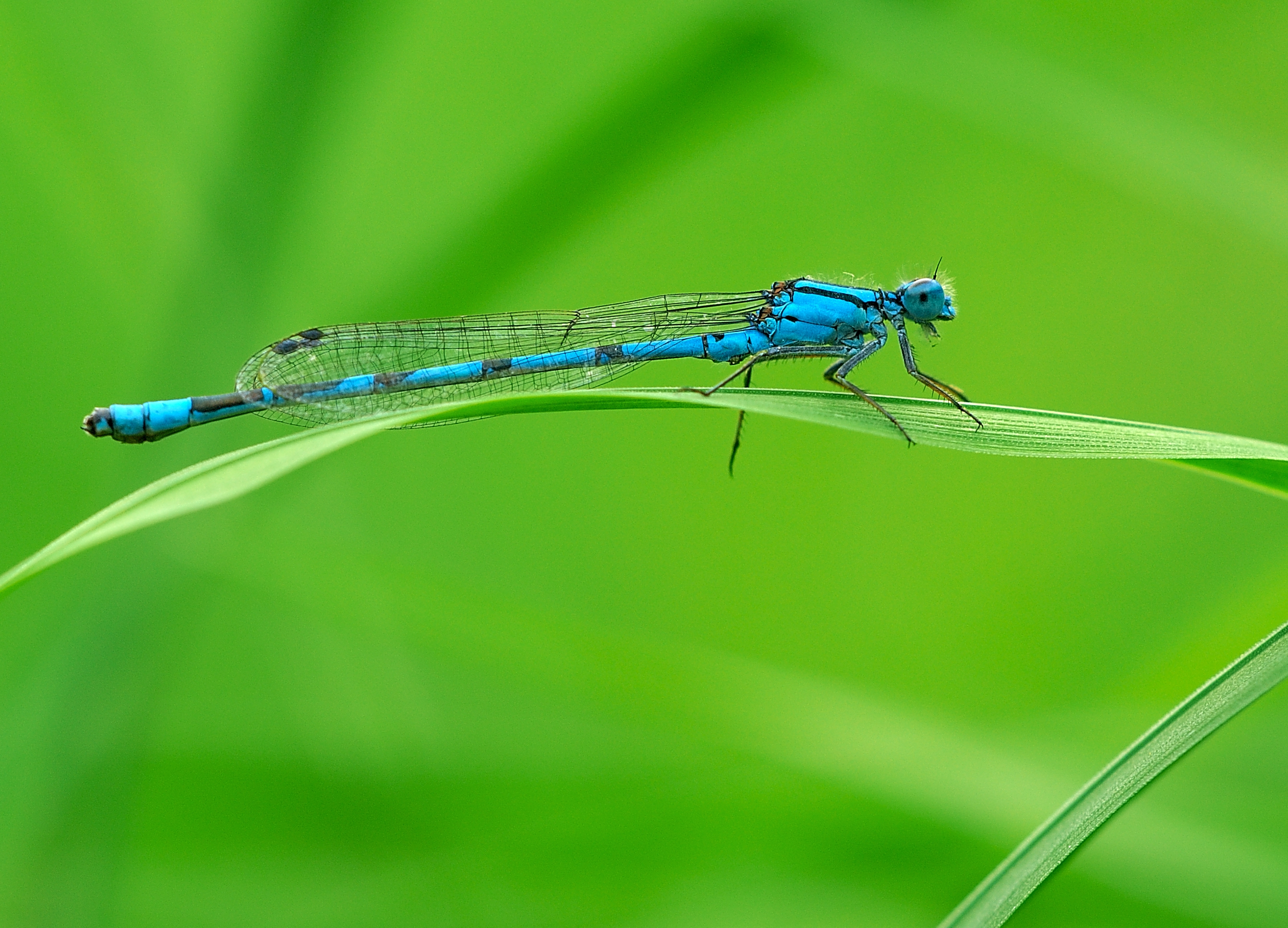 Common Blue Damselfly in Belgium